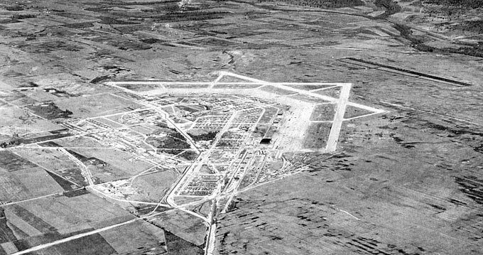 Walnut Ridge Army Airfield, 1942